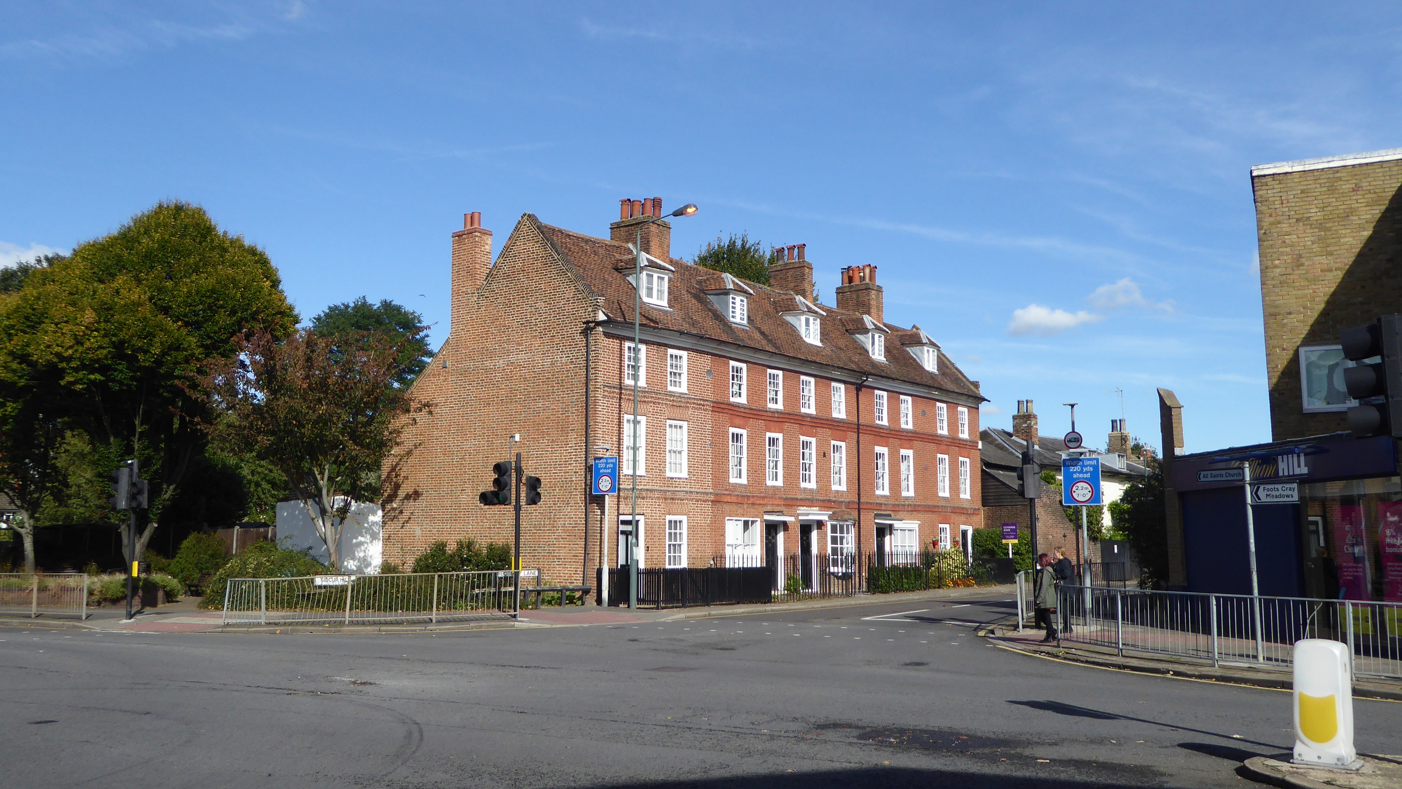 Historic houses at 180-188, Rectory Lane in Foots Cray, London Borough of Bexley.